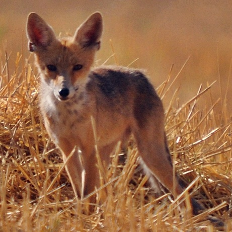 Red fox in Bismil, Turkey Kurdî: Rêvî,Rovî